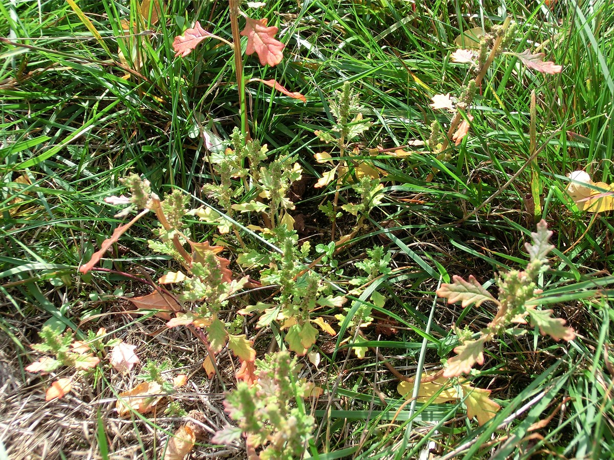 Dysphania pumilio. Babenhausen (Hesse, Germany), margin of sandy habitat "In den Rödern".